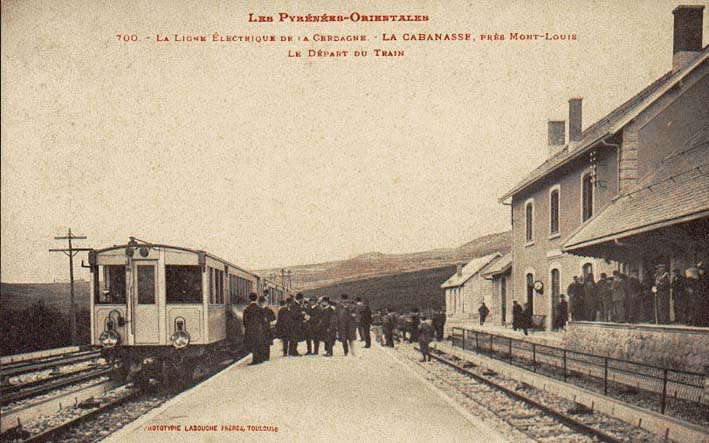 Train station of Montlluís, in the French commune of La Cabanasse